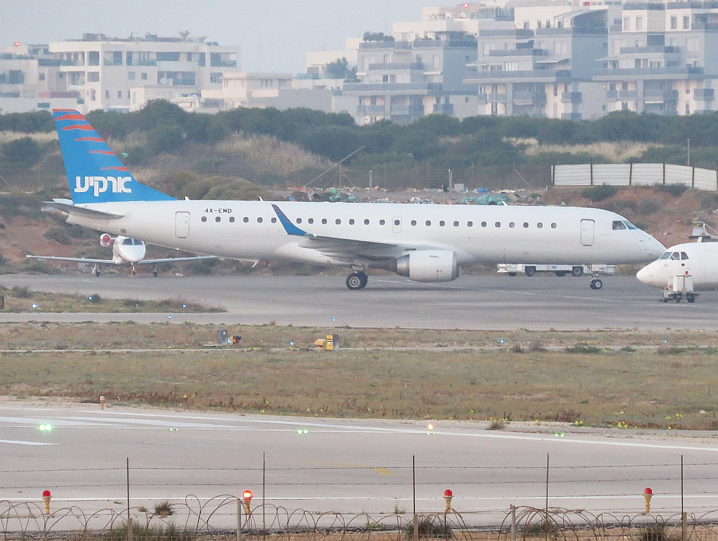 4X-EMD at Sde Dov Airport